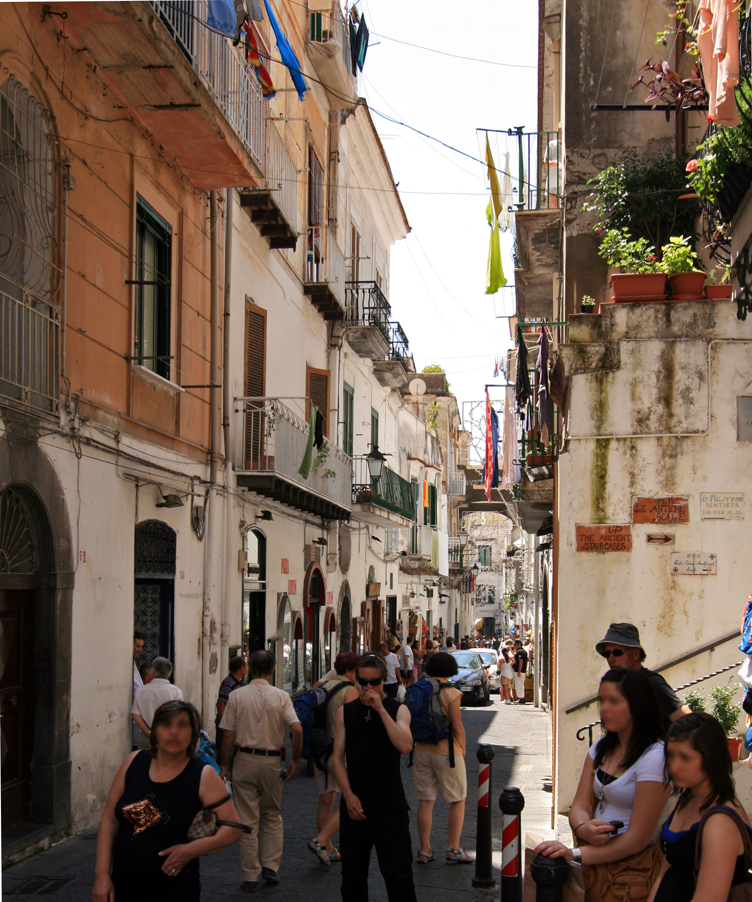 Via Lorenzo di Amalfi, Amalfi, Italy.